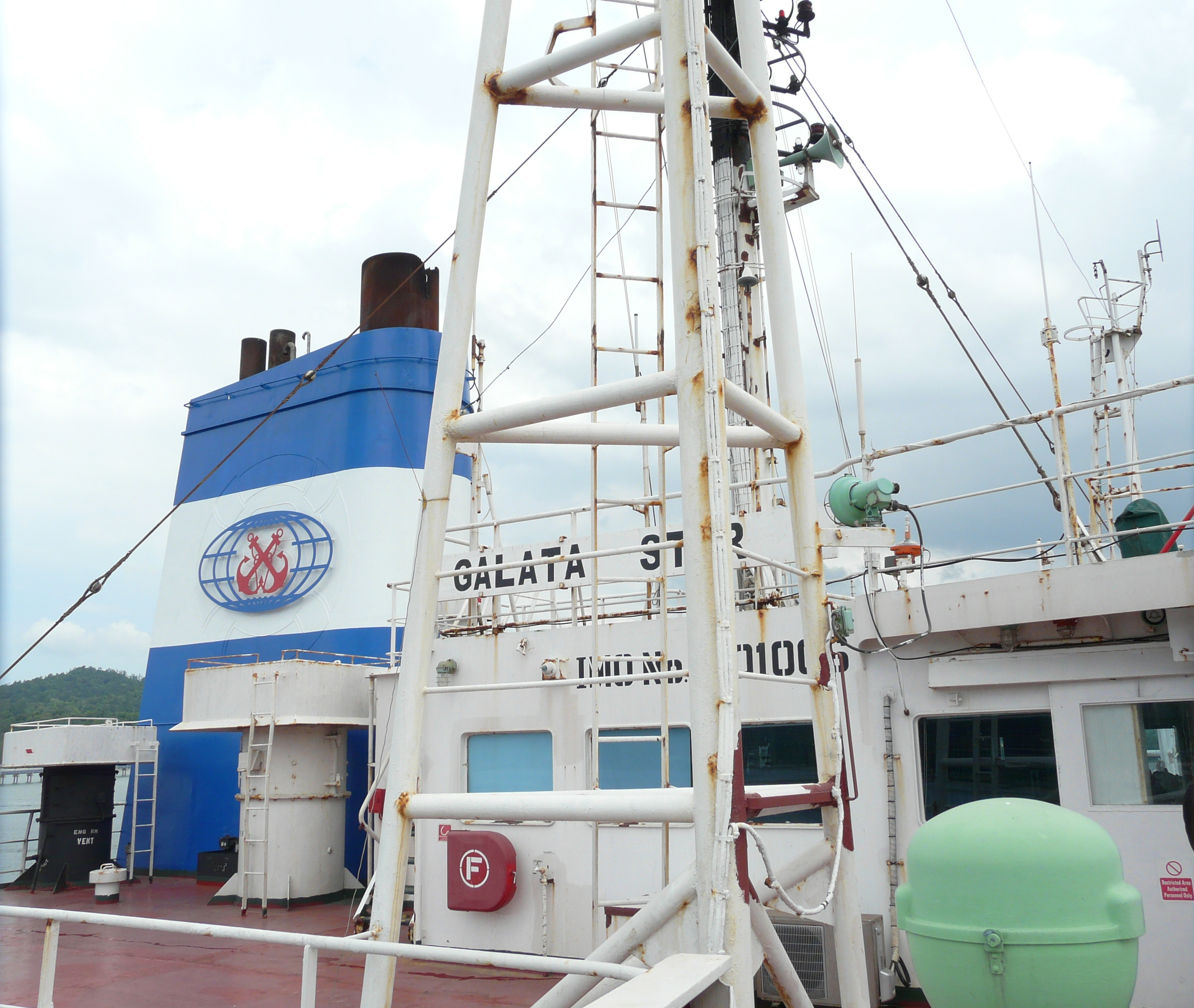 Funnel of bulk carrier vessel "Galata Star", company "Pacmar Shipping" situated in Singapore. It is visible that vessel had another company before as old emblem on the funnel has been cut and painted. Photo dated 19 of October, 2008.